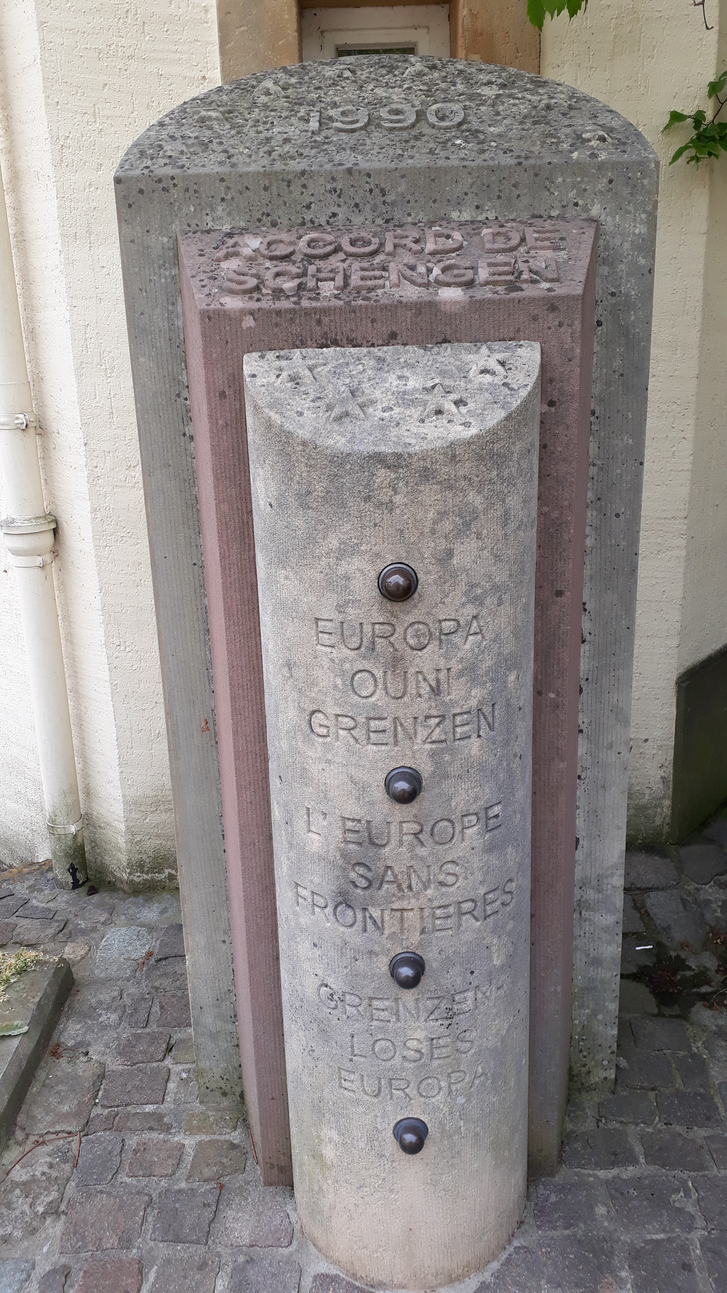 Commune Schengen in Luxembourg - Memorial to the Schengen Treaty.